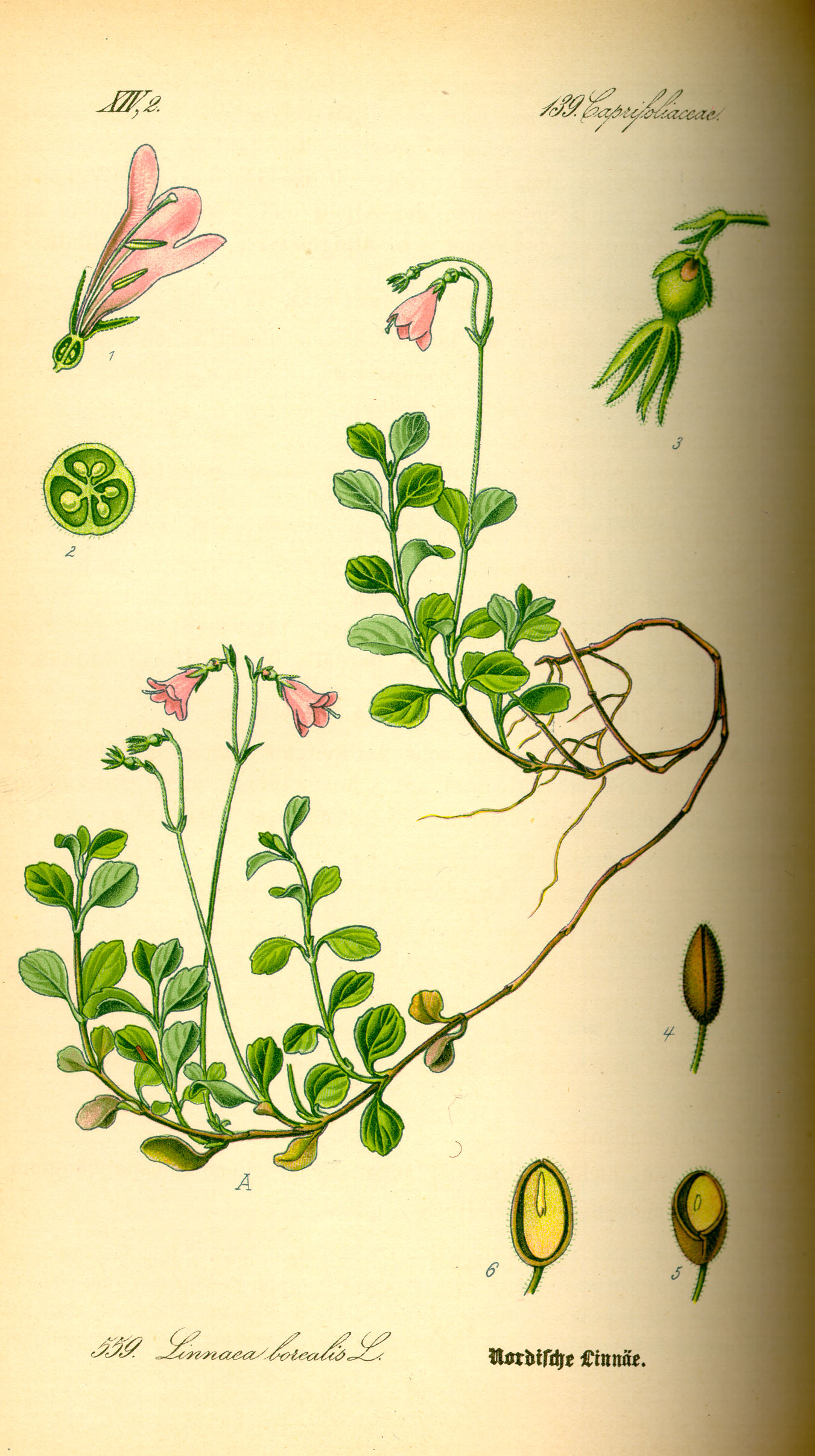 Linnaea borealis